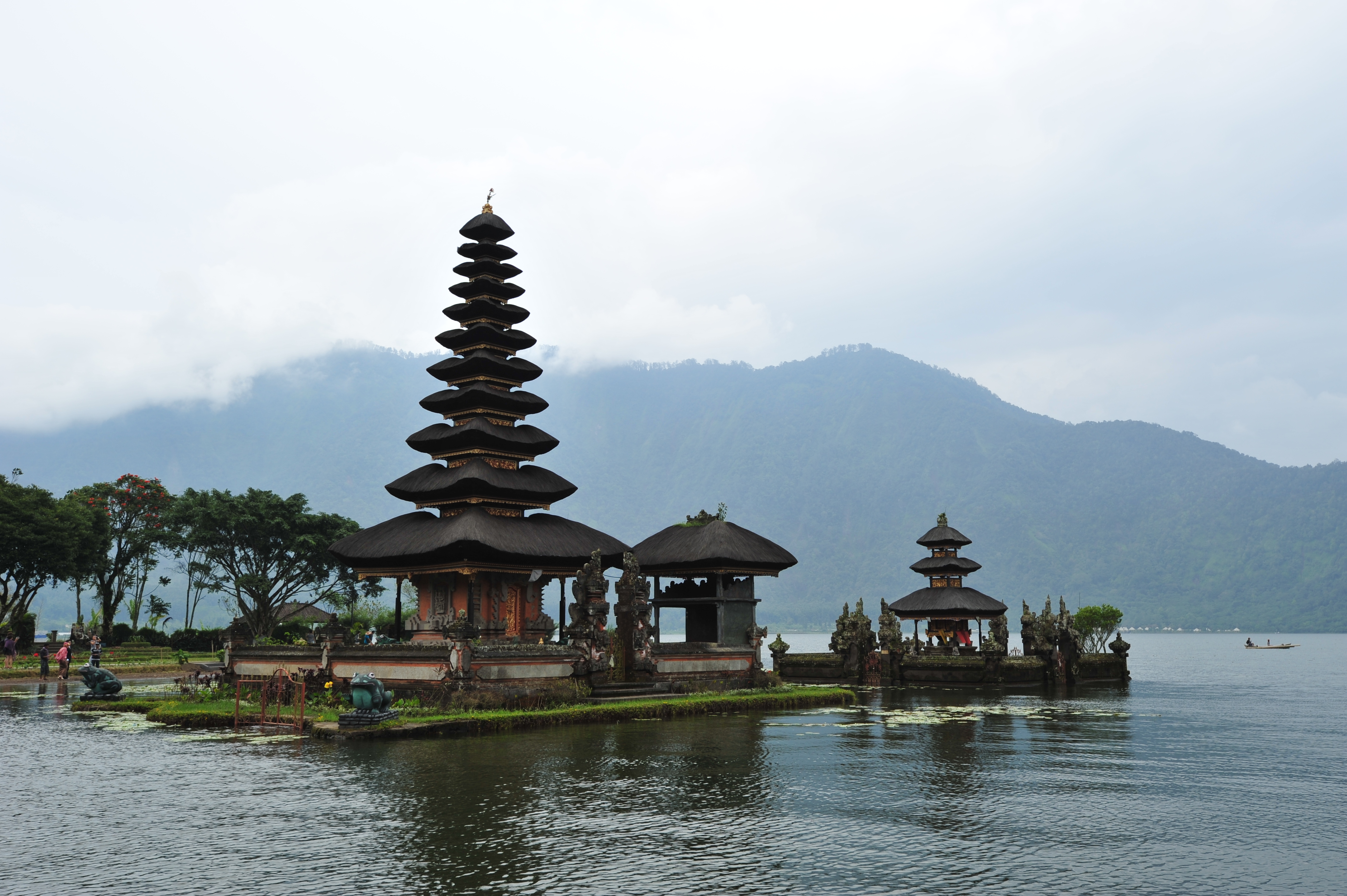 Pura Ulun Danu Bratan Bali 2011